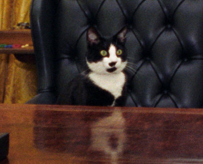 Title: Photograph of Socks the Cat Sitting Behind the President's Desk in the Oval Office: 01/07/1994 Creator: President (1993-2001 : Clinton). White House Photograph Office. (01/20/1993 - 01/20/2001) Types of Archival Materials: Photographs and other Graphic Materials Contacts: William J. Clinton Library (NLWJC), 1200 President Clinton Avenue, Little Rock, AR 72201. Phone: 501-244-2877; Fax: 501-244-2881; Production Dates: 01/07/1994 From: Series: Photographs Relating to the Clinton Administration, compiled 01/20/1993 - 01/20/2001 Collection WJC-WHPO: Photographs of the White House Photograph Office (Clinton Administration), 01/20/1993 - 01/20/2001 Persistent URL: Access Restriction(s): Unrestricted Use Restriction(s): Unrestricted